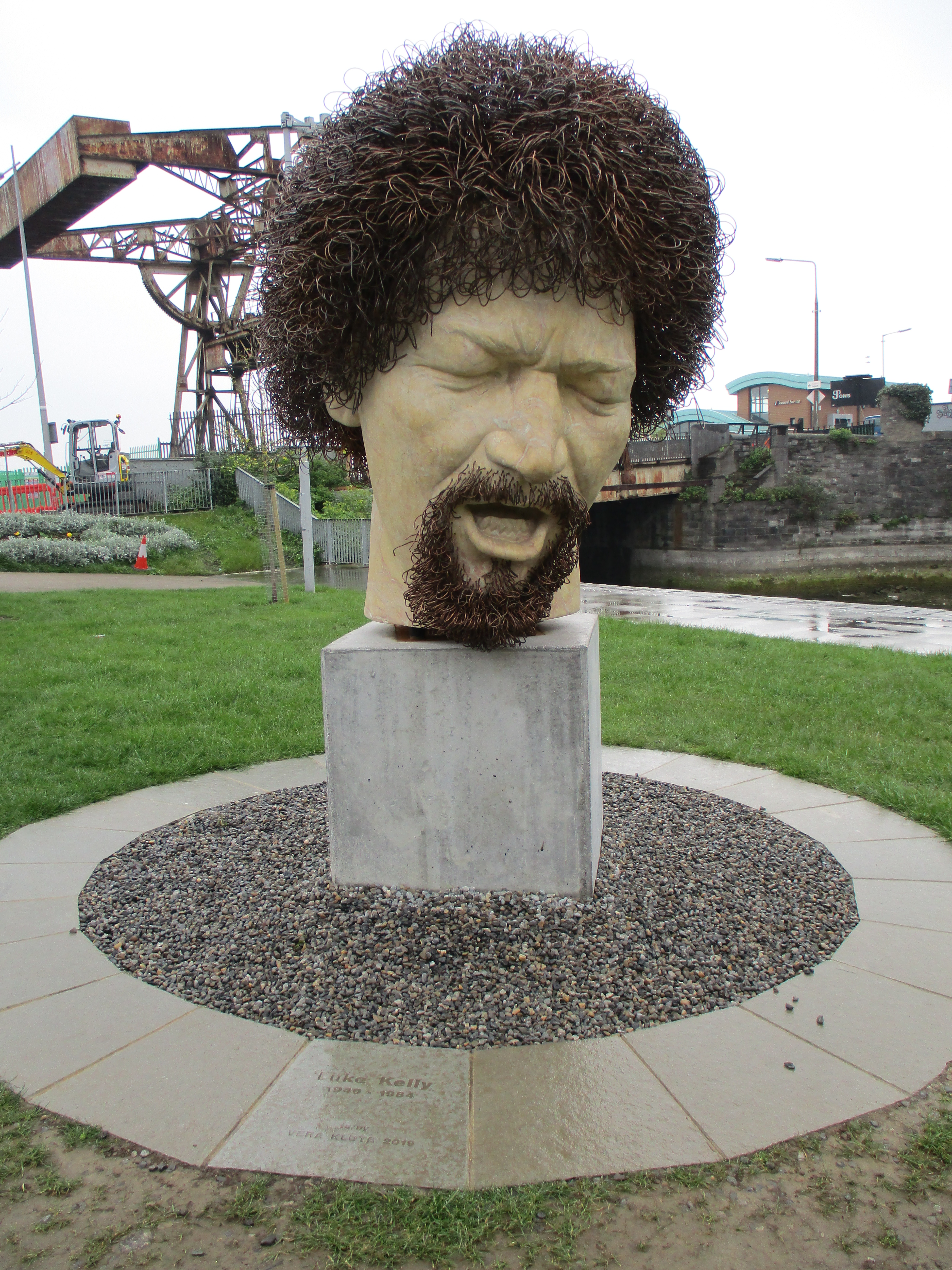 Sculpture of the singer Luke Kelly, who was born in Sheriff Street, Dublin. Vera Klute 2019